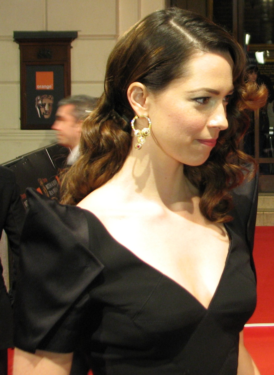 Rebecca Hall on the red carpet at the 63rd British Academy Film Awards. Video of interview